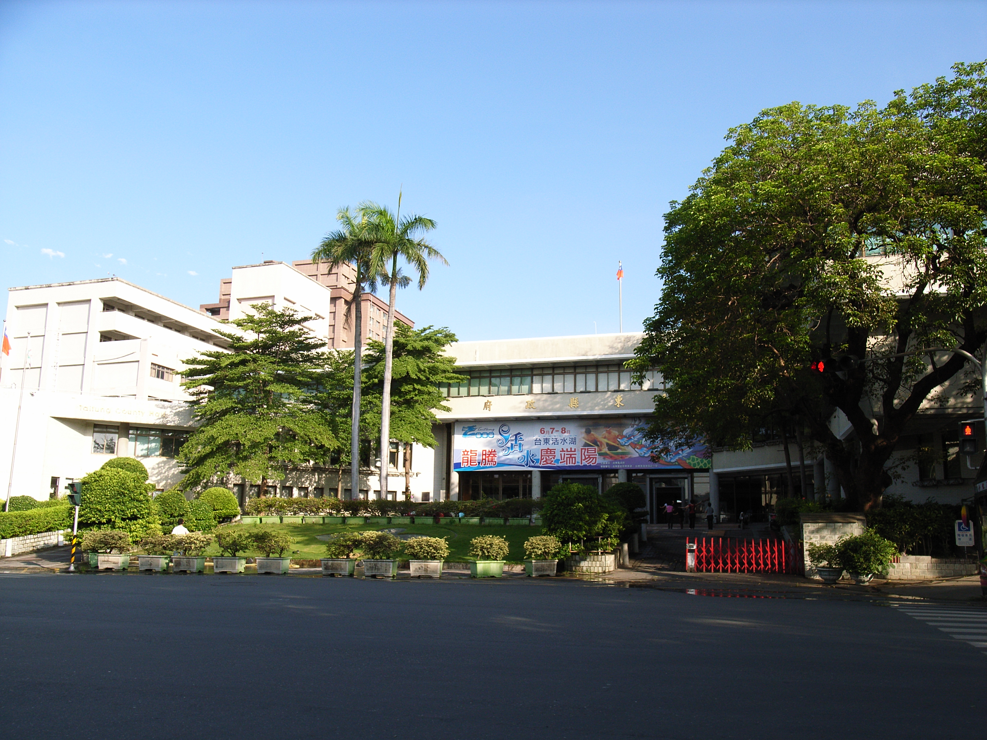 The Building of Taitung County government in Taitung City, Taitung County, Taiwan.